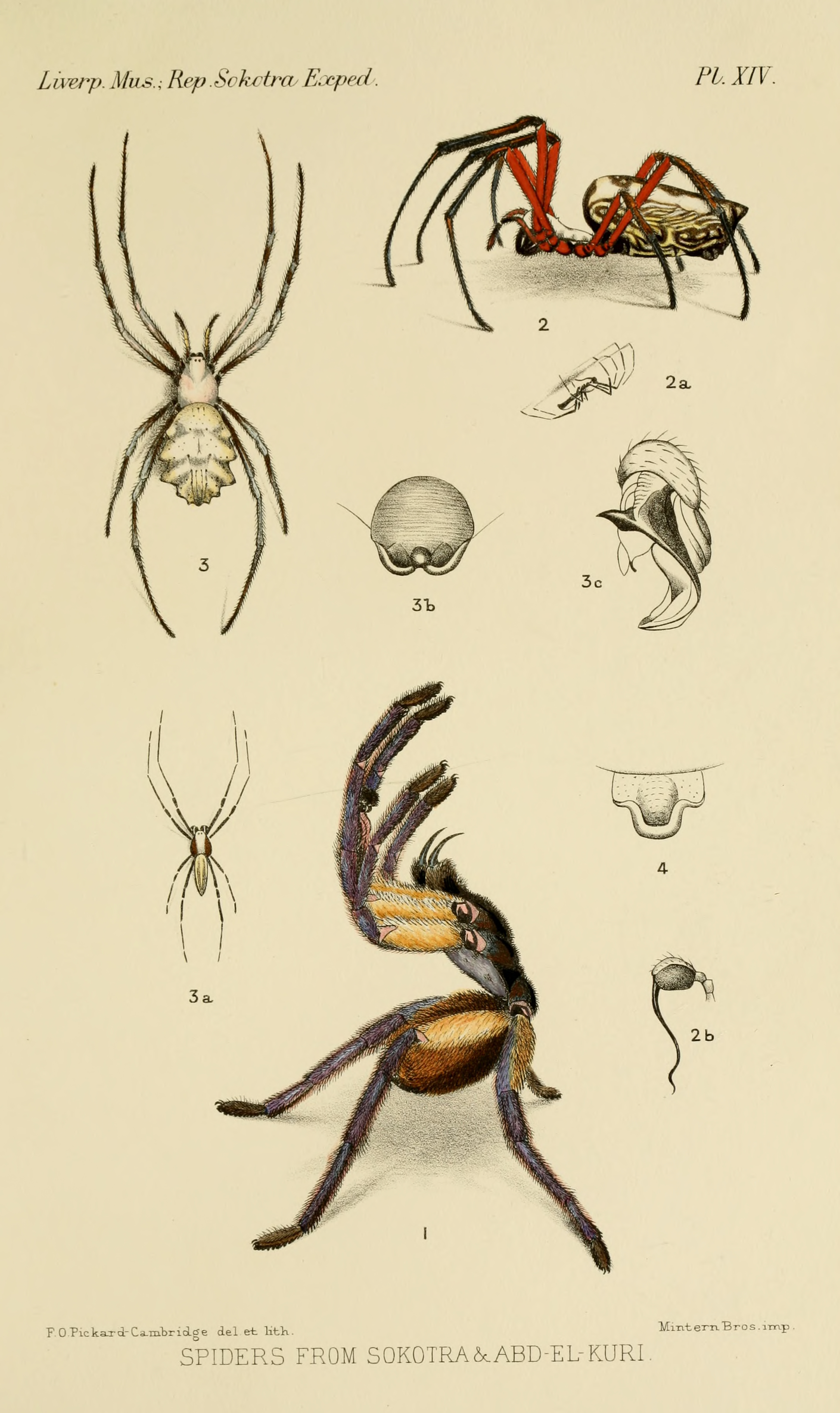 Plate XIV, "Spiders from Sokotra and Abd-el-Kuri", from The Natural History of Sokotra and Abd-el-Kuri, showing Monocentropus balfouri, Nephila sumptuosa, Argyope clarkii, and Araneus cardioceros.